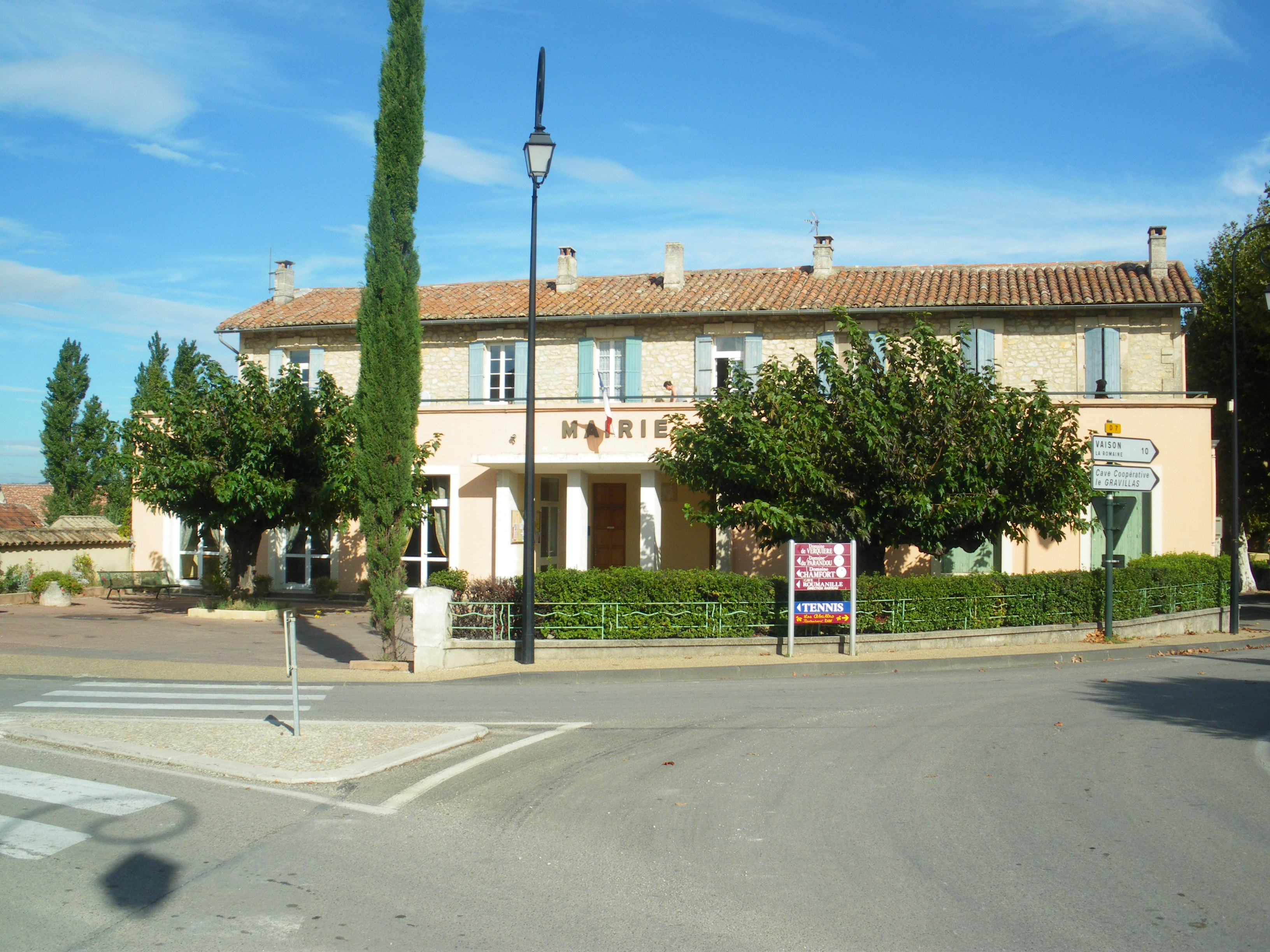 Town hall of Sablet, Vaucluse, France